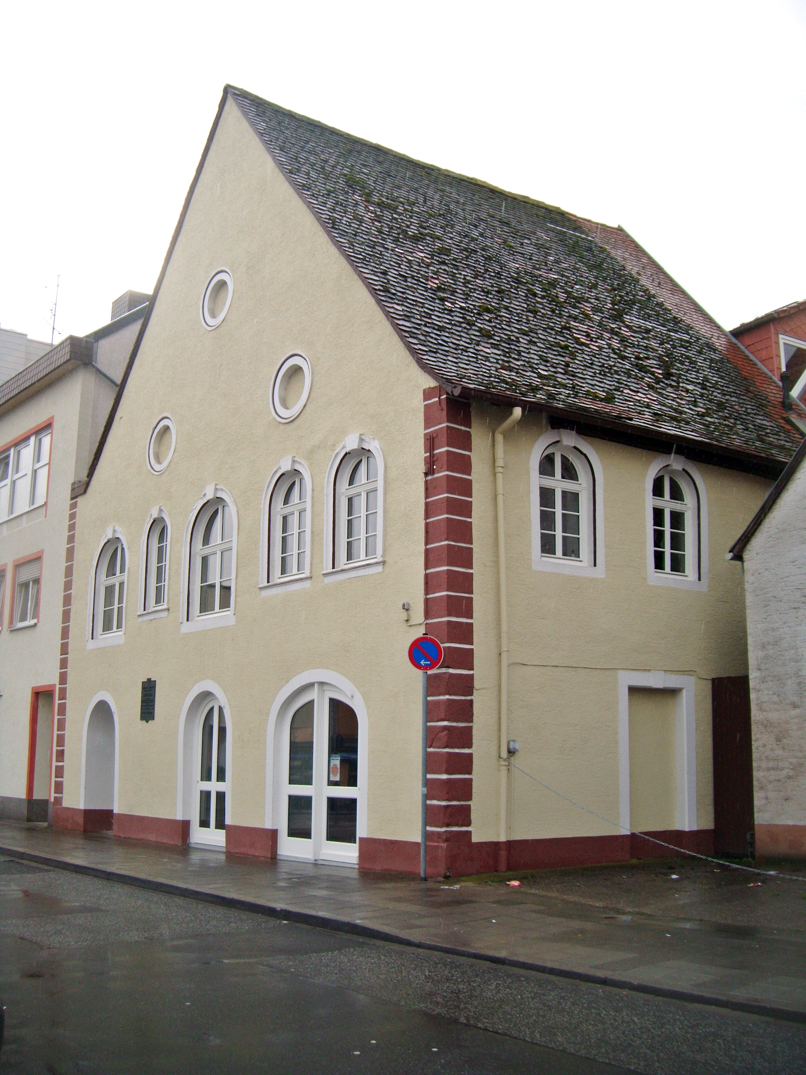 Grünstadt Synagoge